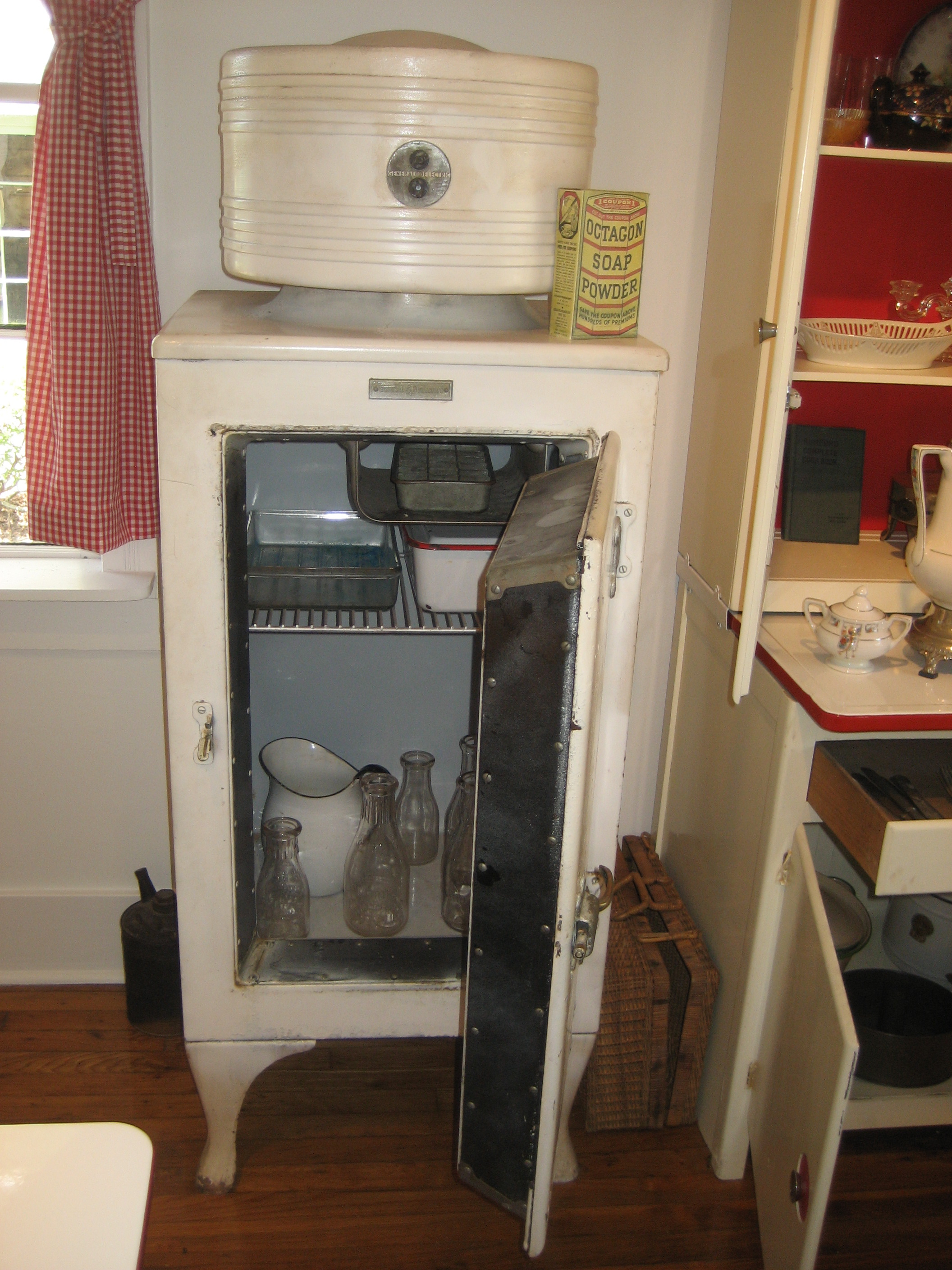 Pensacola, Florida. Historic district museum complex. House museum display of 1920s furnishings and technology. Home refrigerator